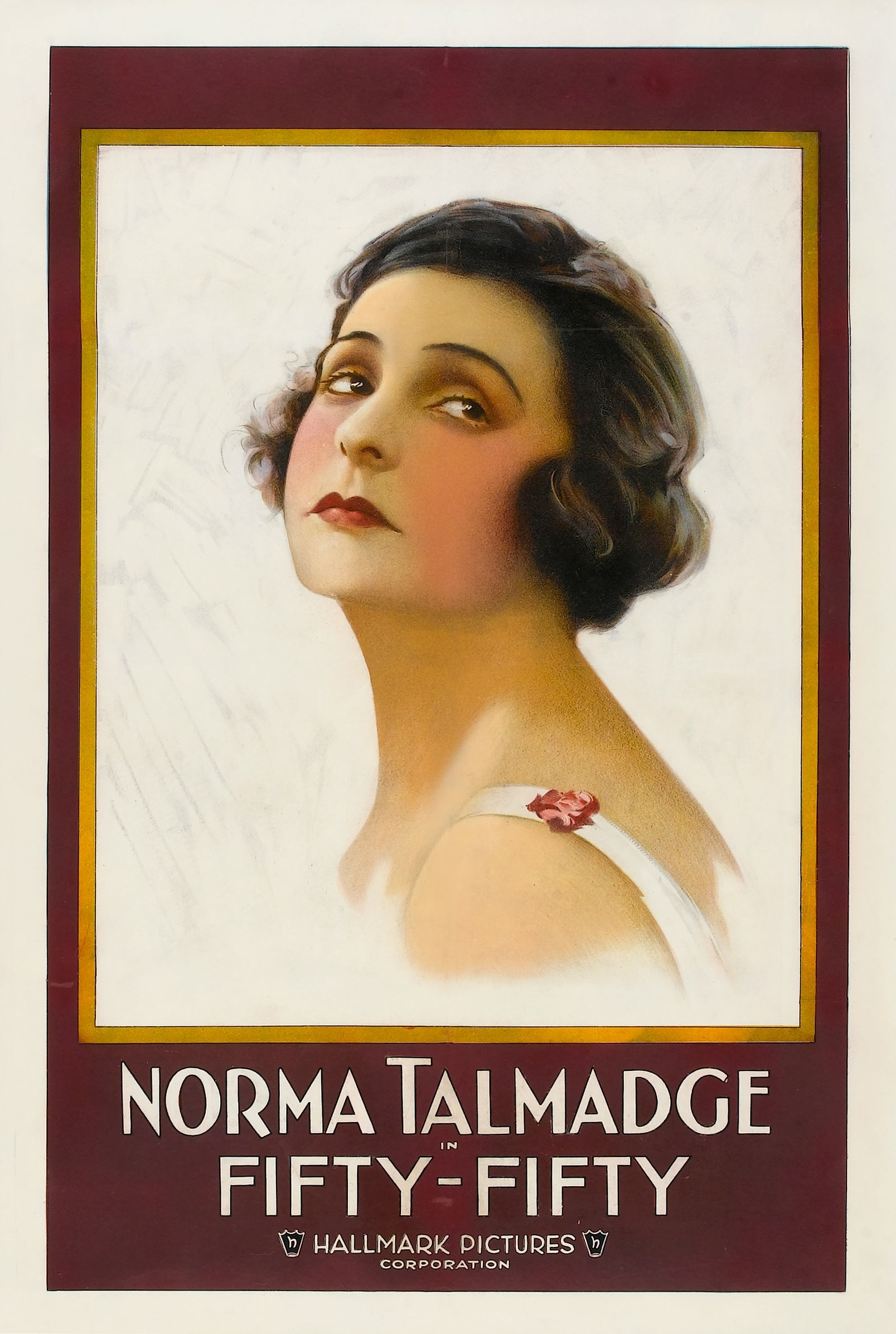 Fifty-Fifty is an American silent film drama directed by Allan Dwan whose story was adapted for the screen by Robert Shirley. This is a poster for the film.